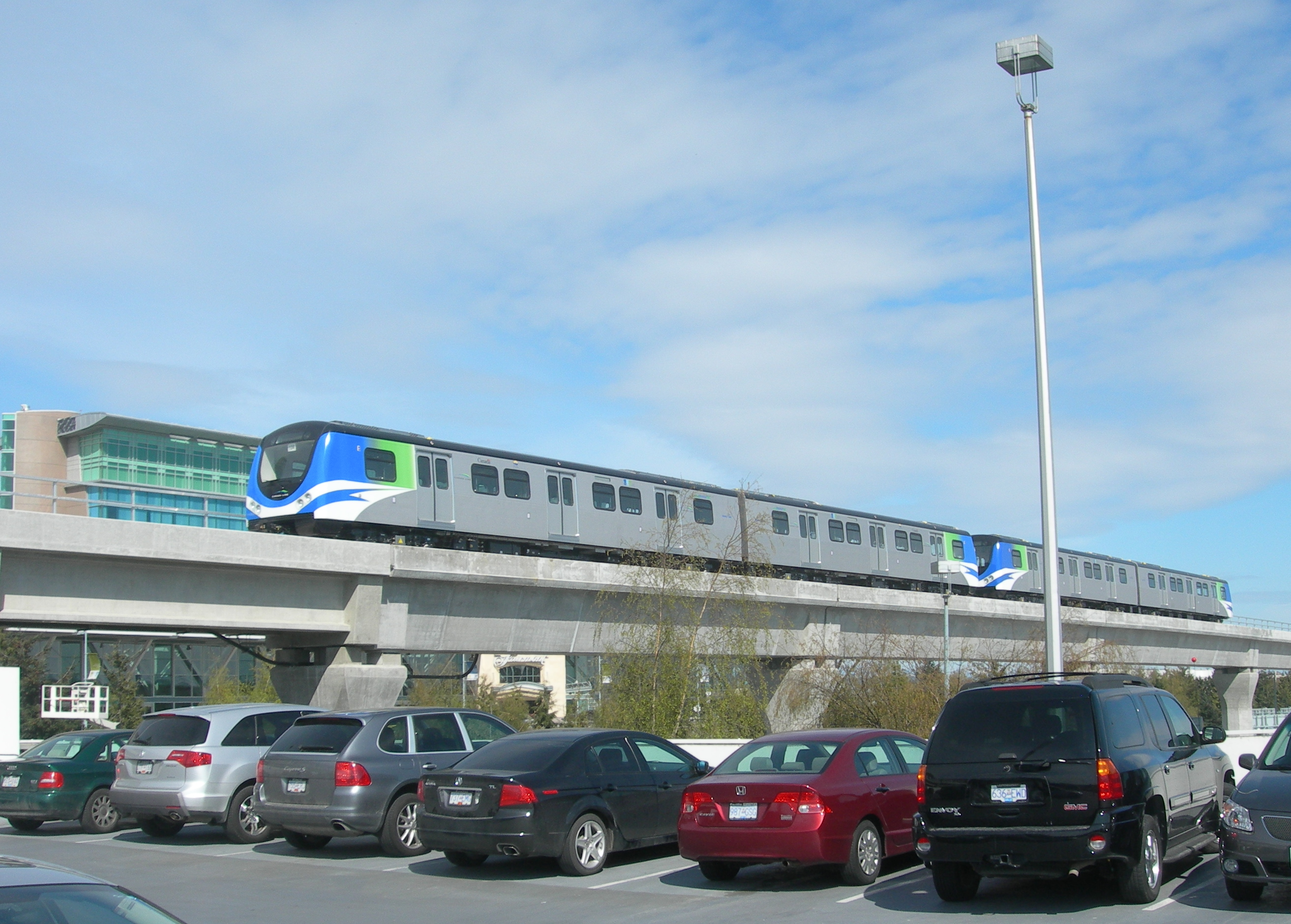 Canada Line Skytrain Cars at Vancouver Airport Station